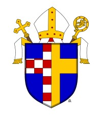 Coat of arms of Ostrava-Opava Diocese, Czech Republic